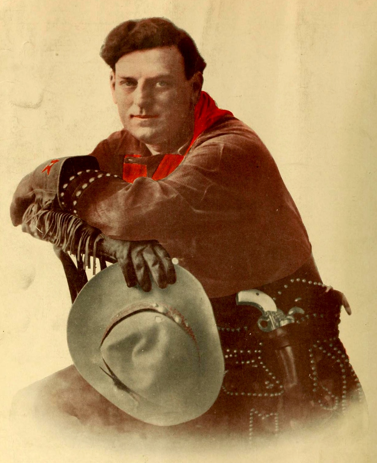 Gilbert M. "Broncho Billy" Anderson (March 21, 1880 – January 20, 1971) was an American actor, writer, film director, and film producer, who is best known as the first star of the Western film genre.